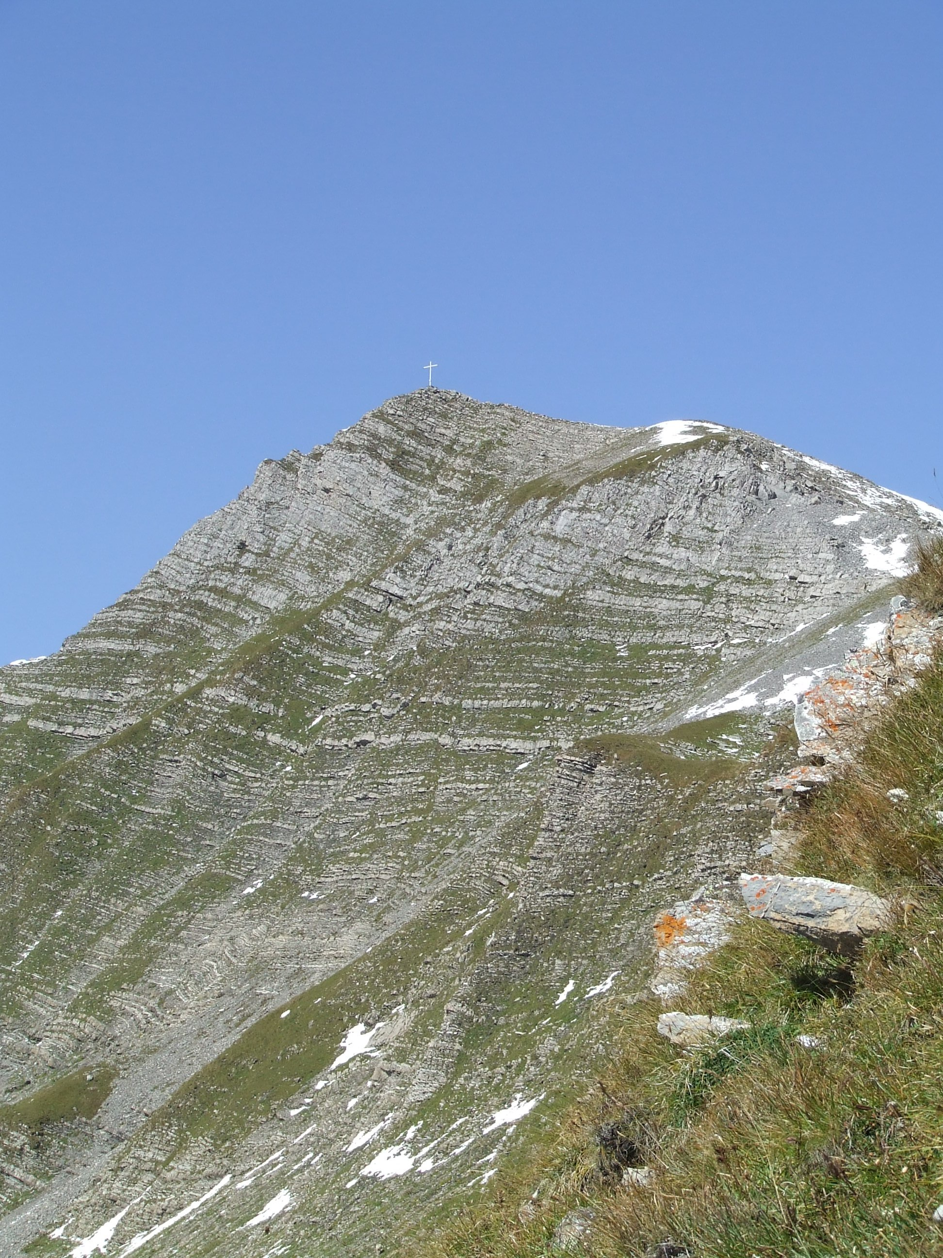 The Hinter Grauspitz from the south east (Swiss) side.